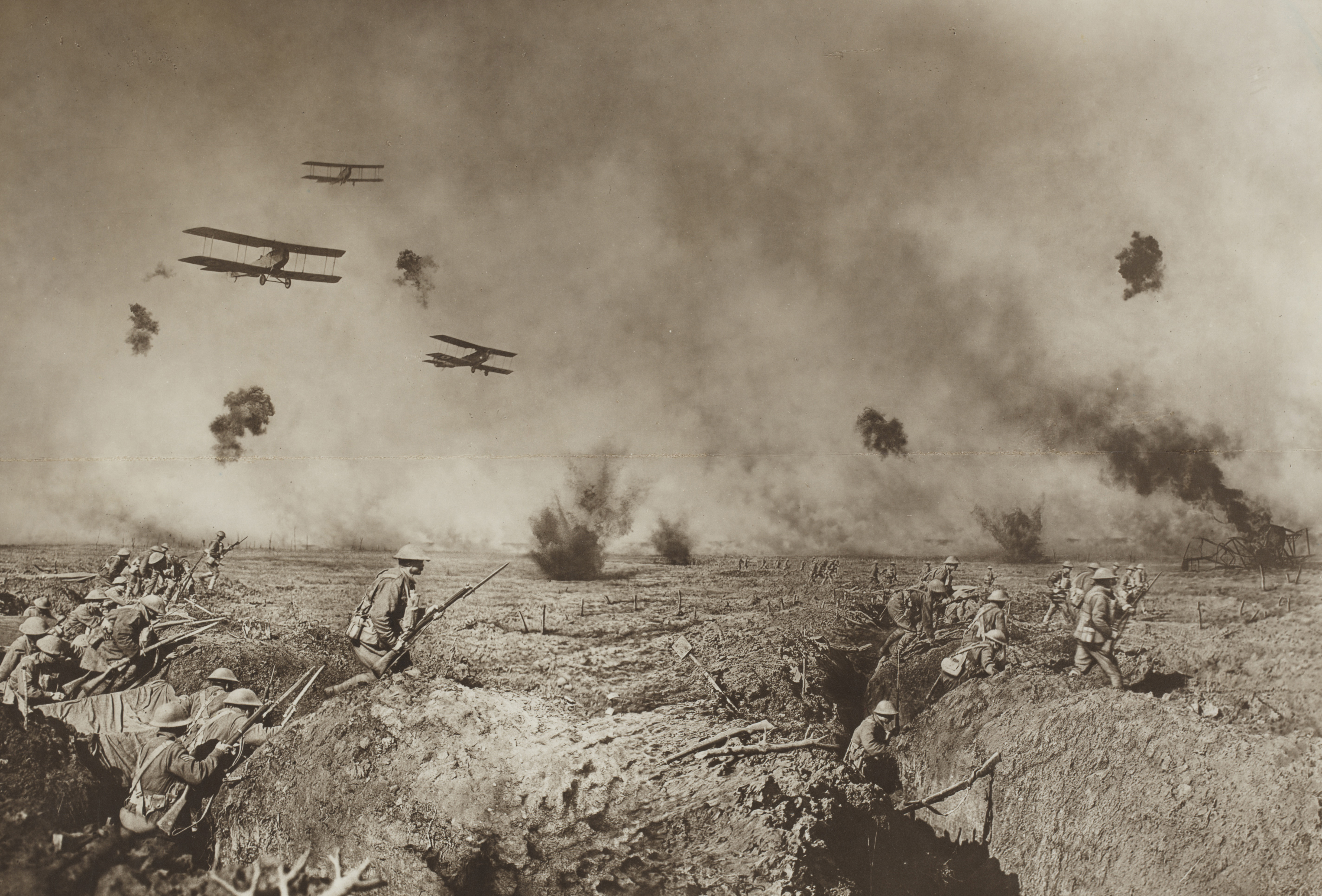 Manipulated photograph consisting of several photographs from the Battle of Zonnebeke in Belgium during the first World War